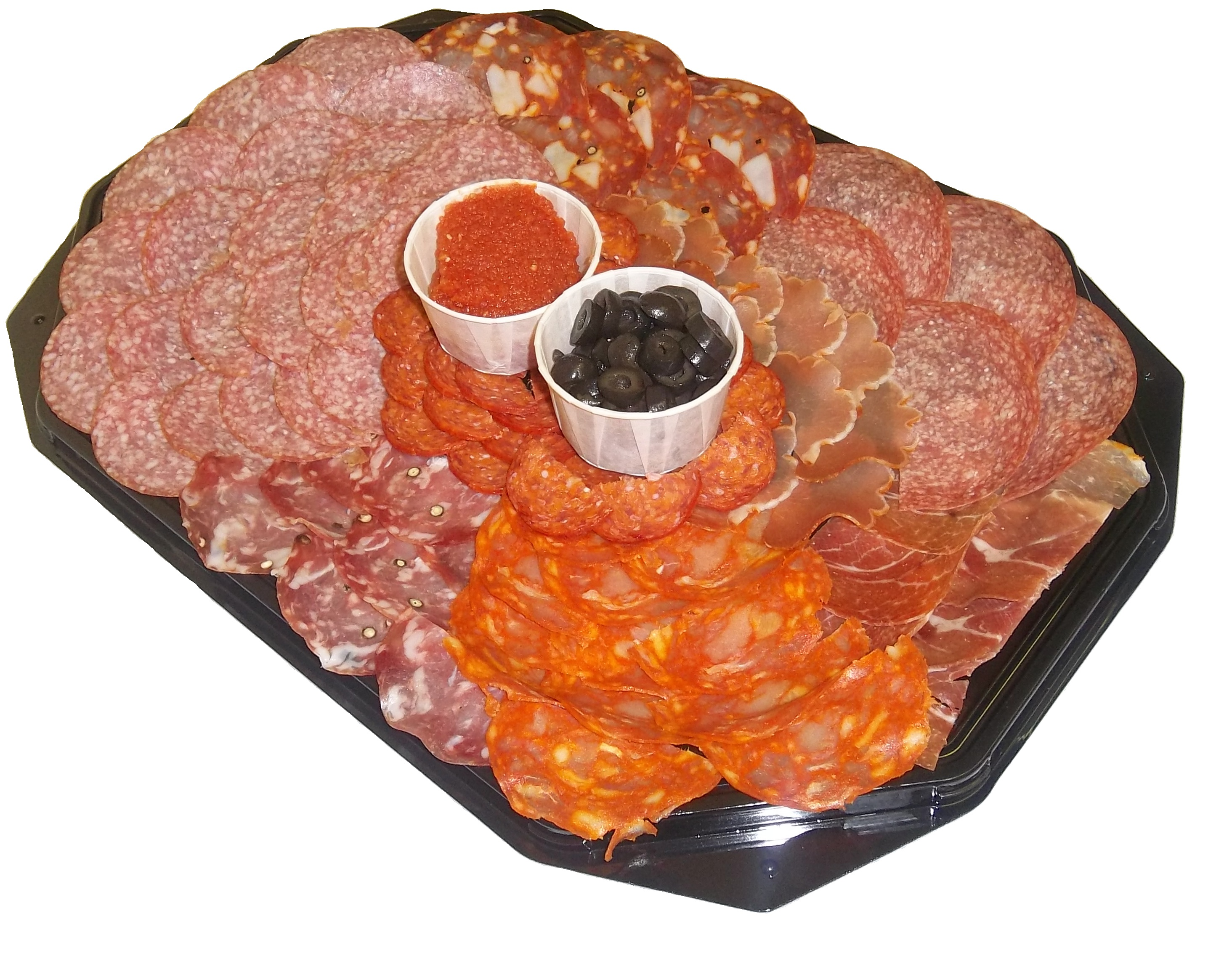 Continental Meat Platter used in buffet catering. Meats from around Europe thinly sliced, served with dips and olives.